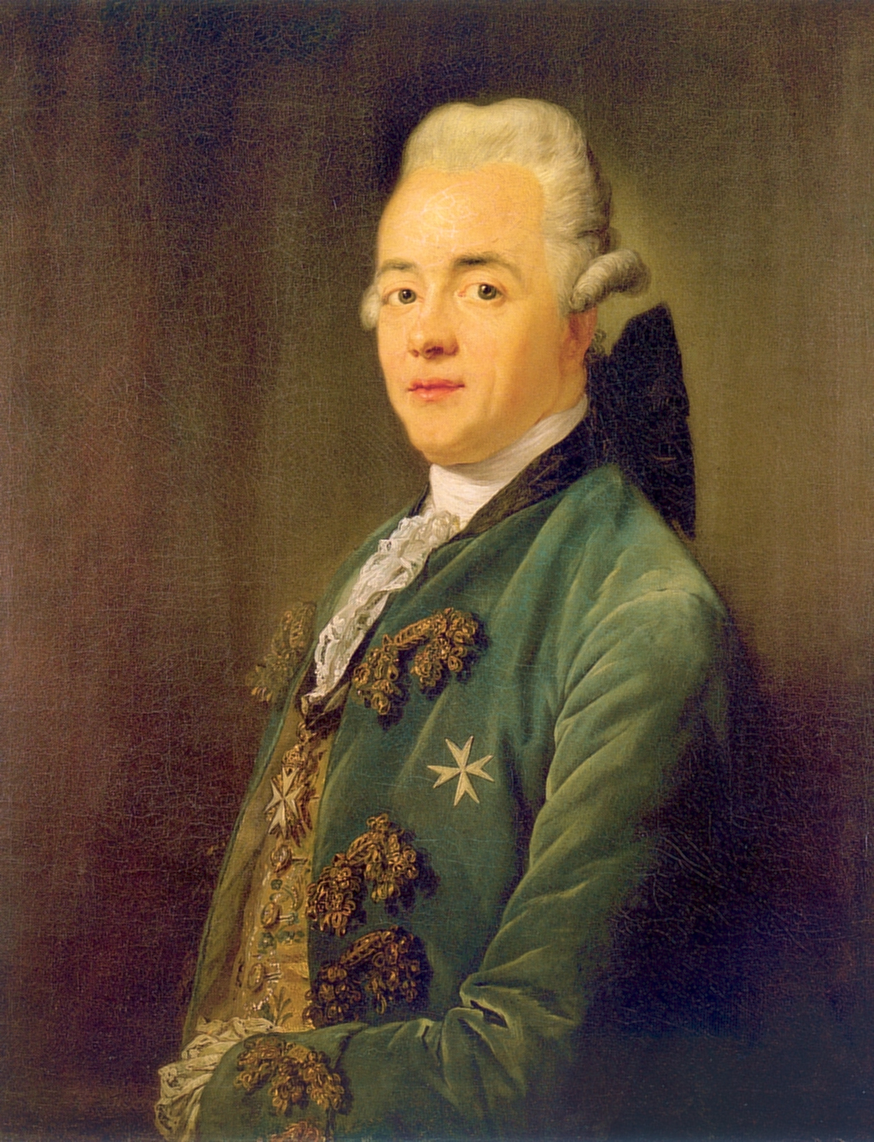 Portrait of Joseph Friedrich von Racknitz